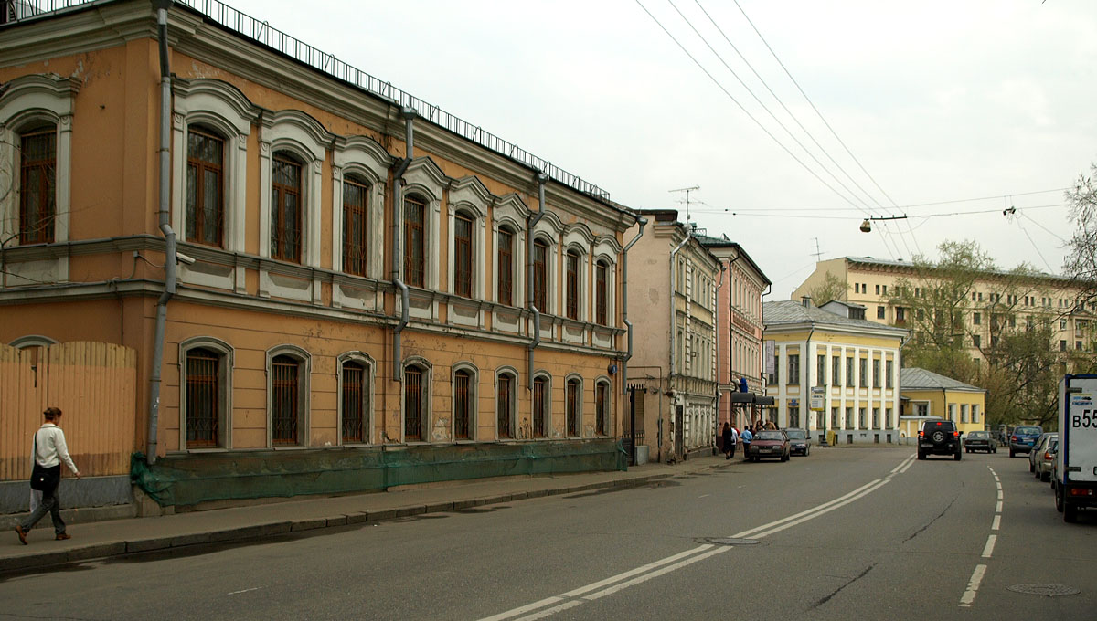 Indian cultural center operated by the Embassy of India in Moscow (9, Vorontsovo Pole - left)